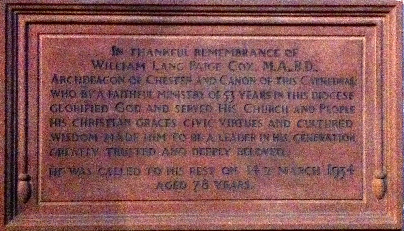 Memorial to William Lang Paige Cox in Chester Cathedral. Died 14 March 1934